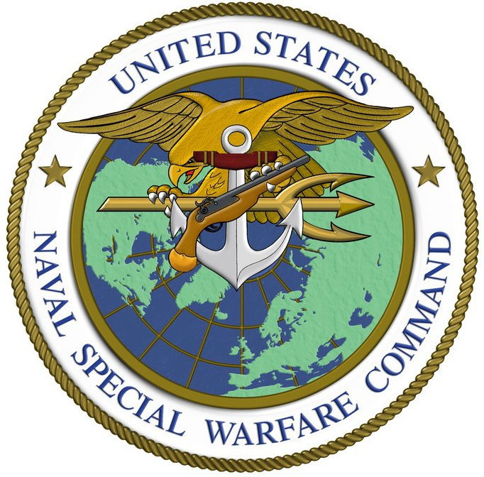 The insignia of United States Naval Special Warfare Command.